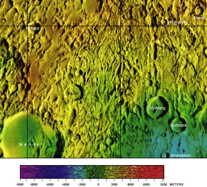 Part of the USGS far side lunar chart used for the presentation